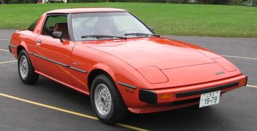 Picture of a 1979 SA22C RX7 from Mazda